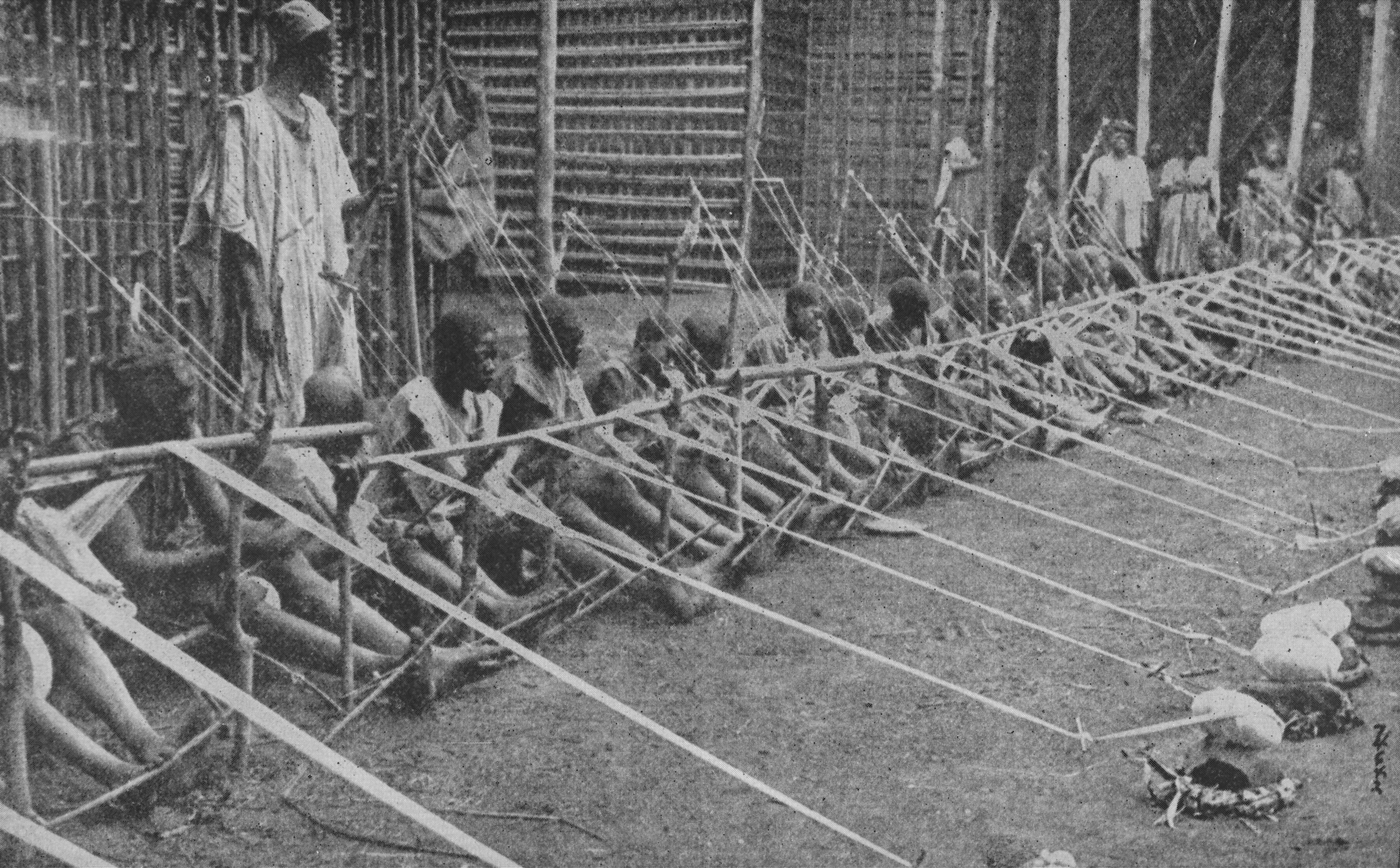 Photograph of Cameroonian children weaving cloth. The original caption reads: "Recently photographed in Kamerun, the last of the German provinces in Africa to surrender to the Allies. Illustrating child labor at the lowest possible cost."